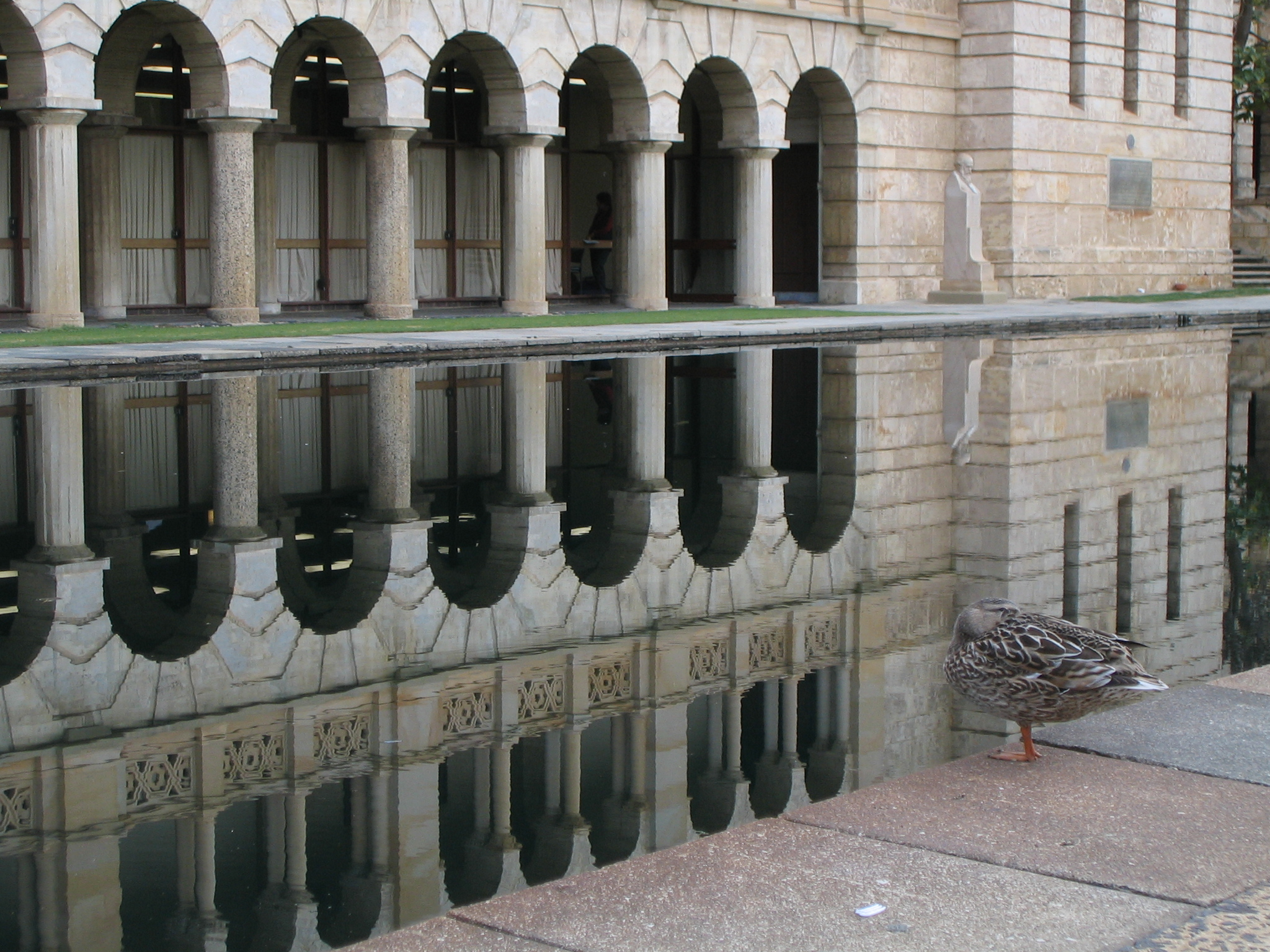 Reflection Pool, University of Western Australia, Crawley, Western Australia.